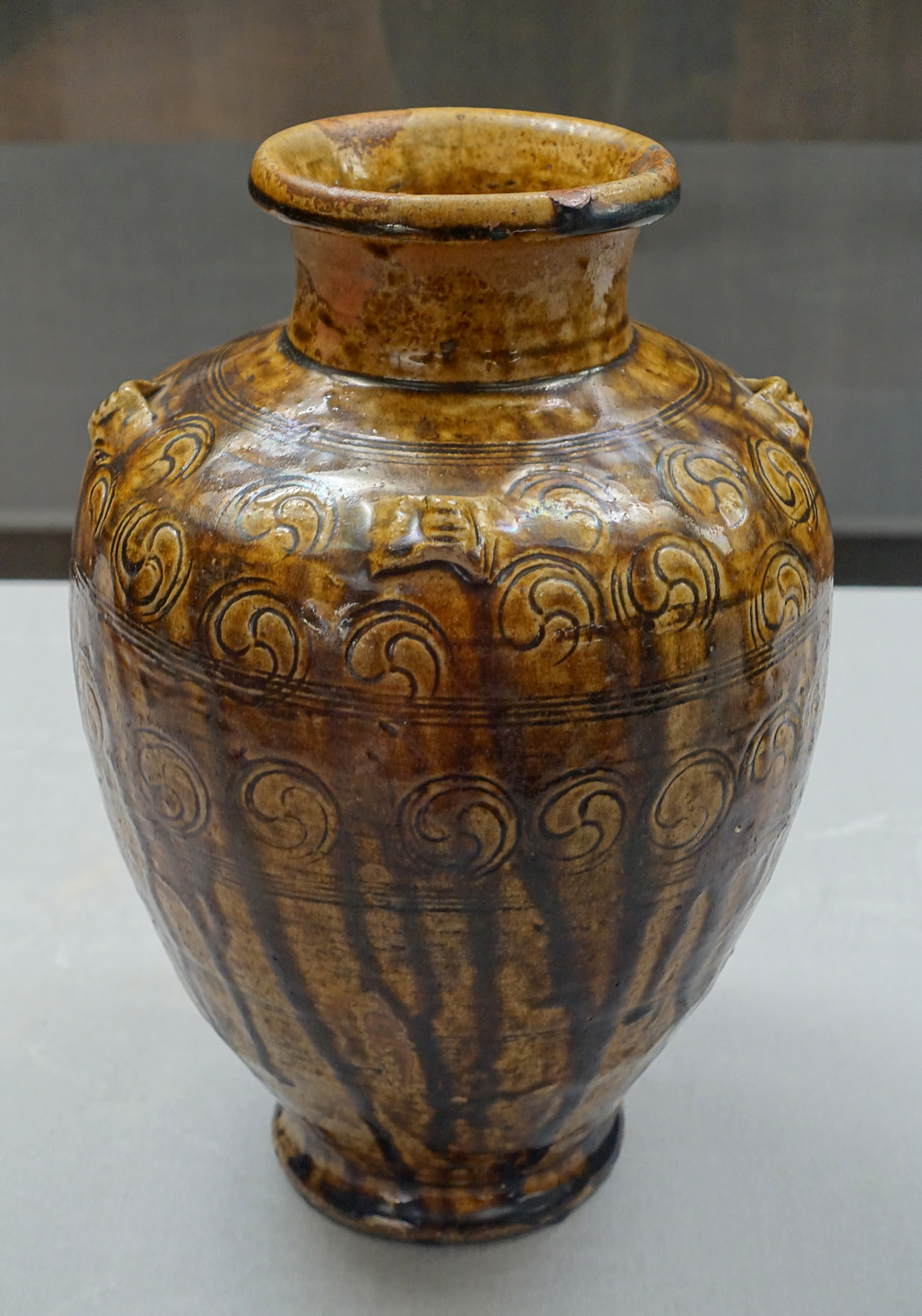 Exhibit in the Tokyo National Museum - Tokyo, Japan.